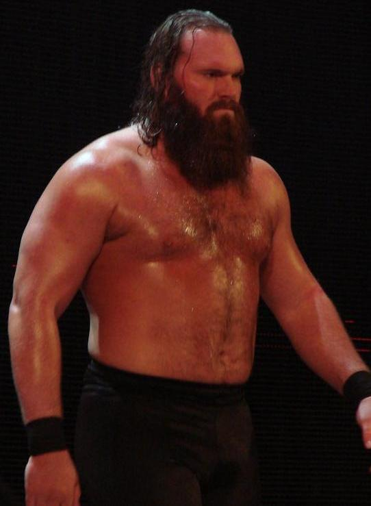 Mike Knox Rosemont, IL